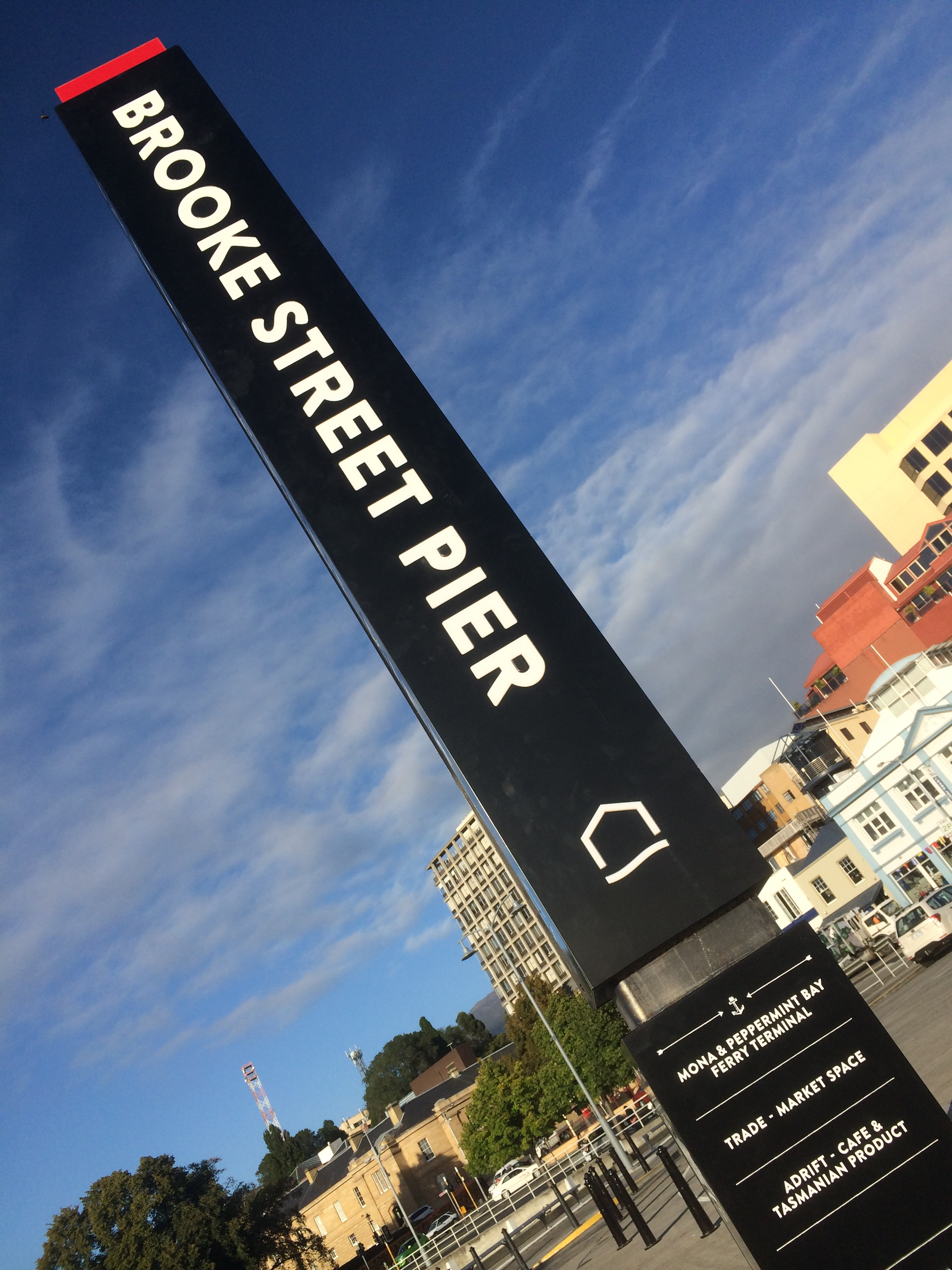 Brooke Street Pier vertical sign